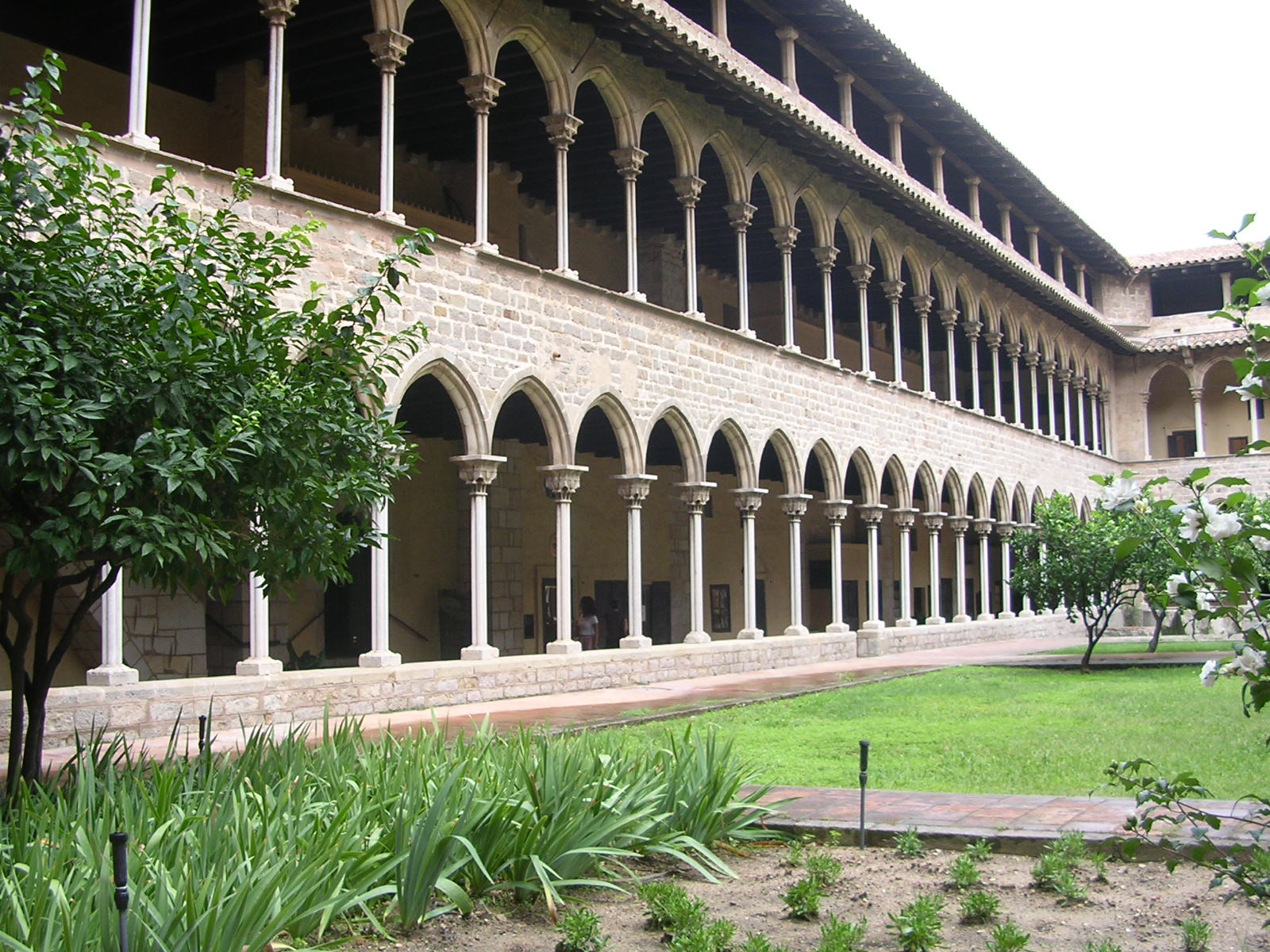 Cloister of Santa Maria de Pedralbes in Barcelona (Catalonia).